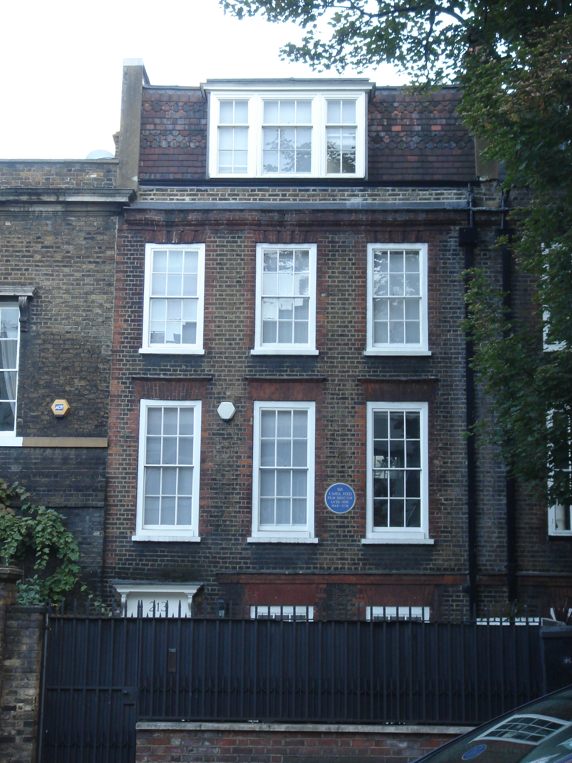 213 and 215 King's Road